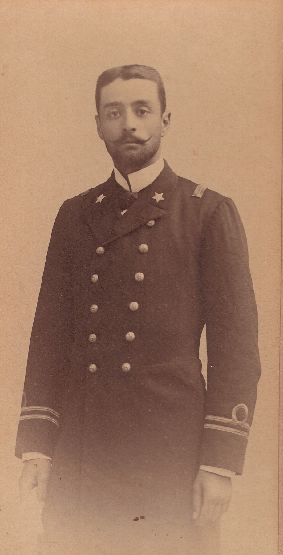 Italian admiral Ernesto Burzagli (1873-1944) as a young man, around 1895. The original picture, scanned by Emiliano Burzagli, belongs to the Private archive of Burzaghi family, Italy.